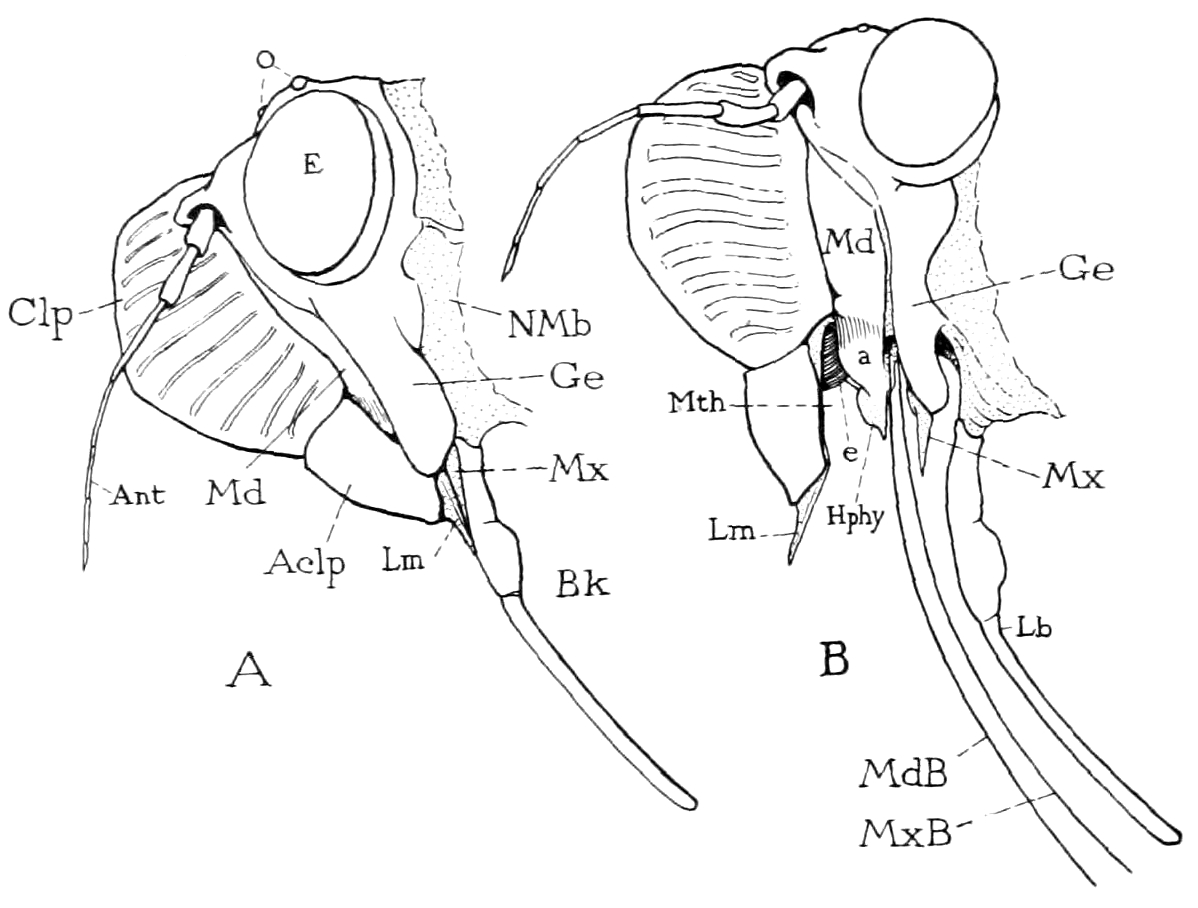 Fig. 121. The structure of the head and sucking beak of the adult cicada A, the head in side view with the beak (Bk) in natural position B, the head of an immature adult: the mouth (Mth) opened exposing the roof (e) of the sucking pump (see fig. 122), and the tonguelike hypopharynx (Hphy); the parts of the beak separated, showing that it is composed of the labium (Lb), inclosing normally two pairs of long slender bristles (MdB, MxB, one of each pair shown) a, bridge between base of mandibular plate (Md) and hypopharynx (Hpy); Aclp, anteclypeus; Ant, antenna; Bk, beak; Clp, clypeus; e, roof of mouth cavity, or sucking pump; Ge, gena (cheek plate); Hpy, hypopharynx; Lb, labium; Lm, labrum; Md, base of mandible; MdB, mandibular bristle; Mth, mouth; Mx; maxilla; MxB, maxillary bristle; NMb, neck membrane; O, ocelli